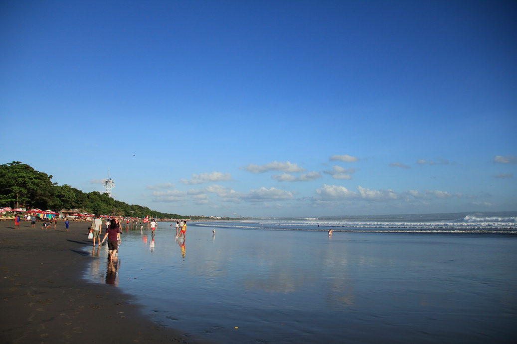 Kuta Beach viewed from Seminyak